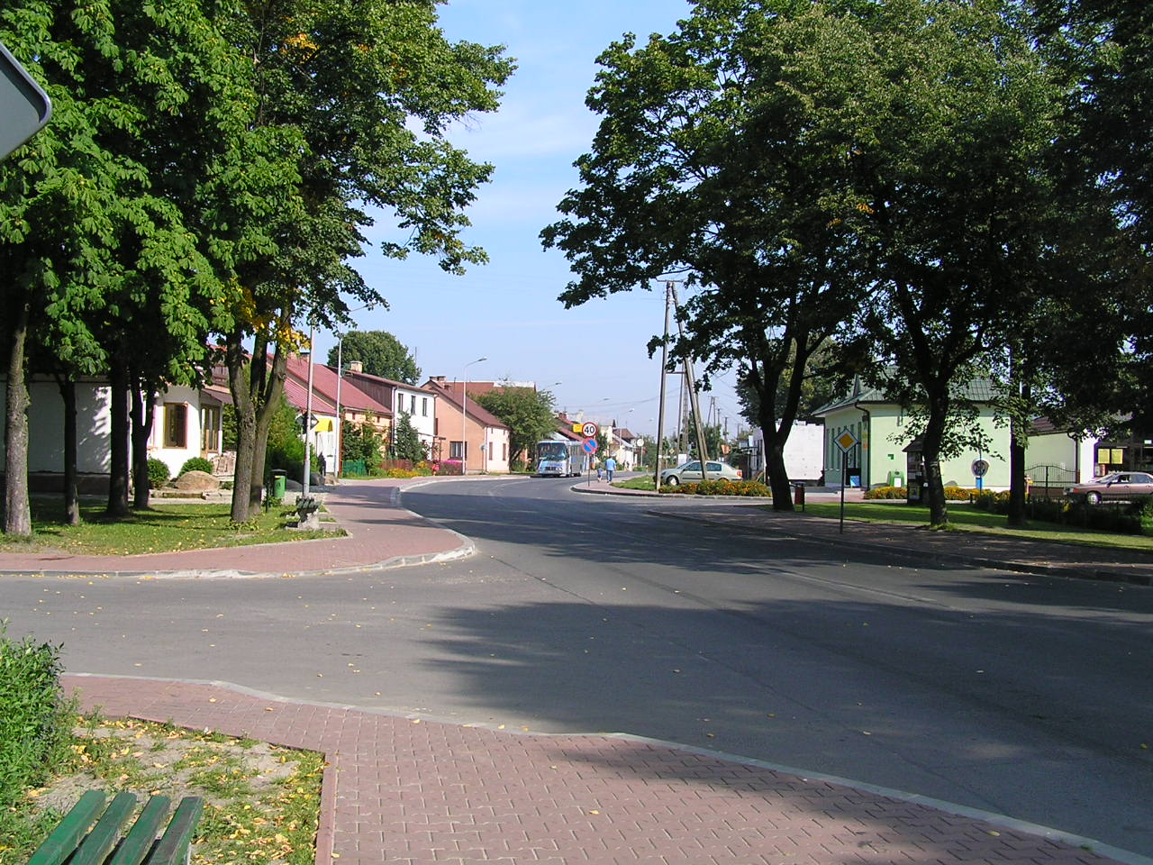 autor: Yarek shalom 21:30, 25 October 2006 (UTC)yarek shalom